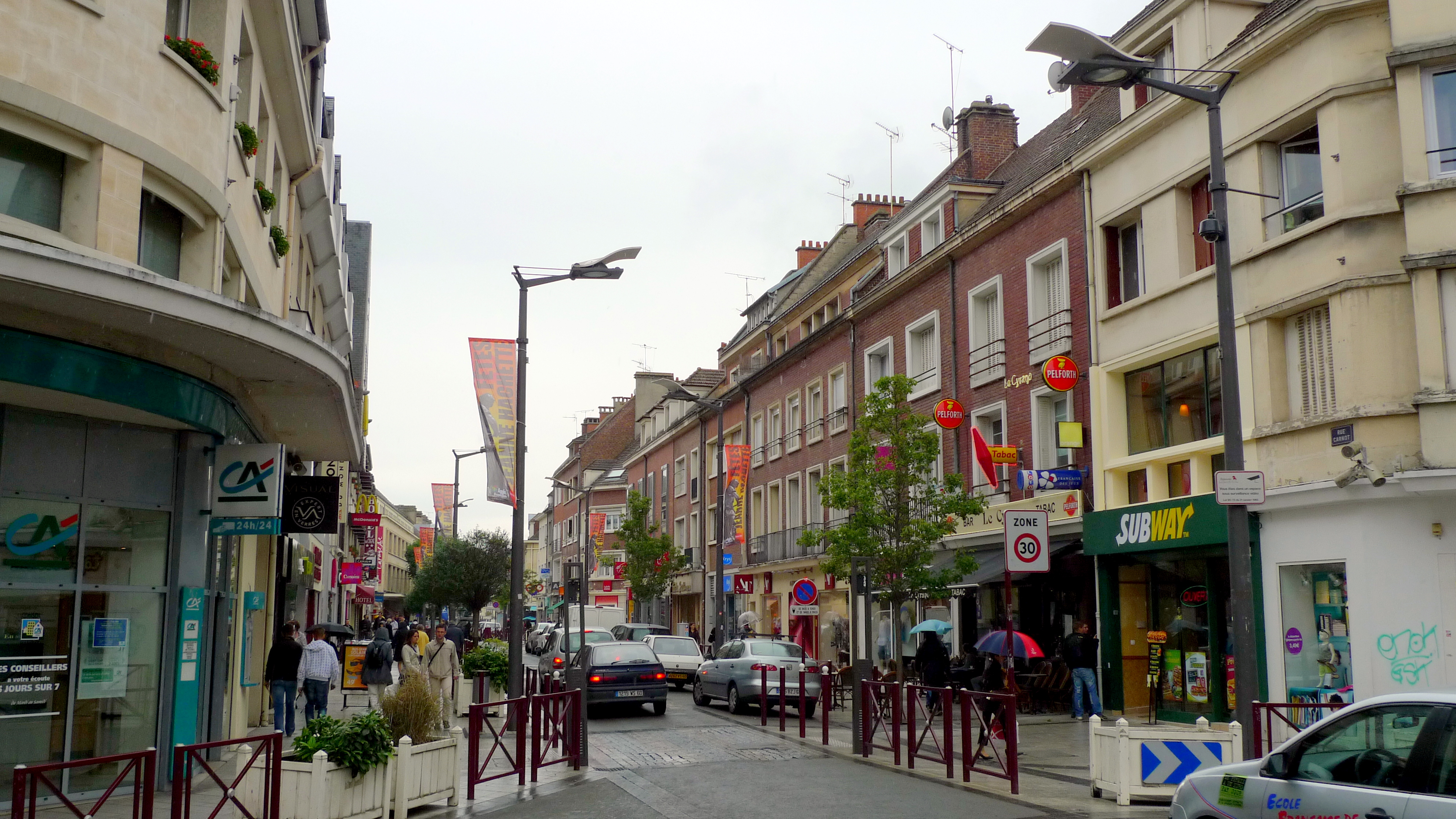 Beauvais town centre.